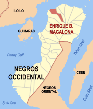 Map of Negros Occidental showing the location of Enrique B. Magalona